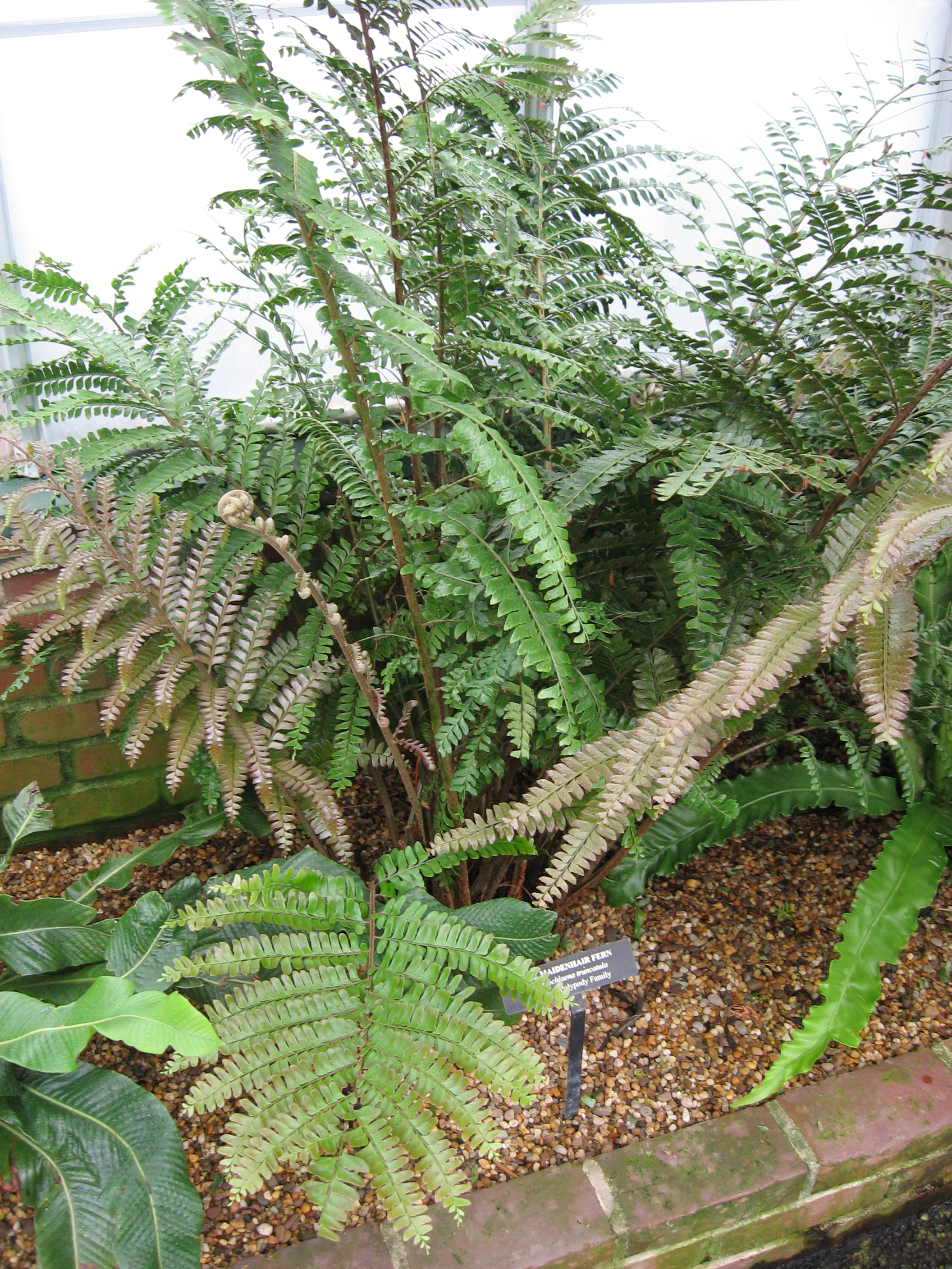 A picture of Didymochlaena truncatula.